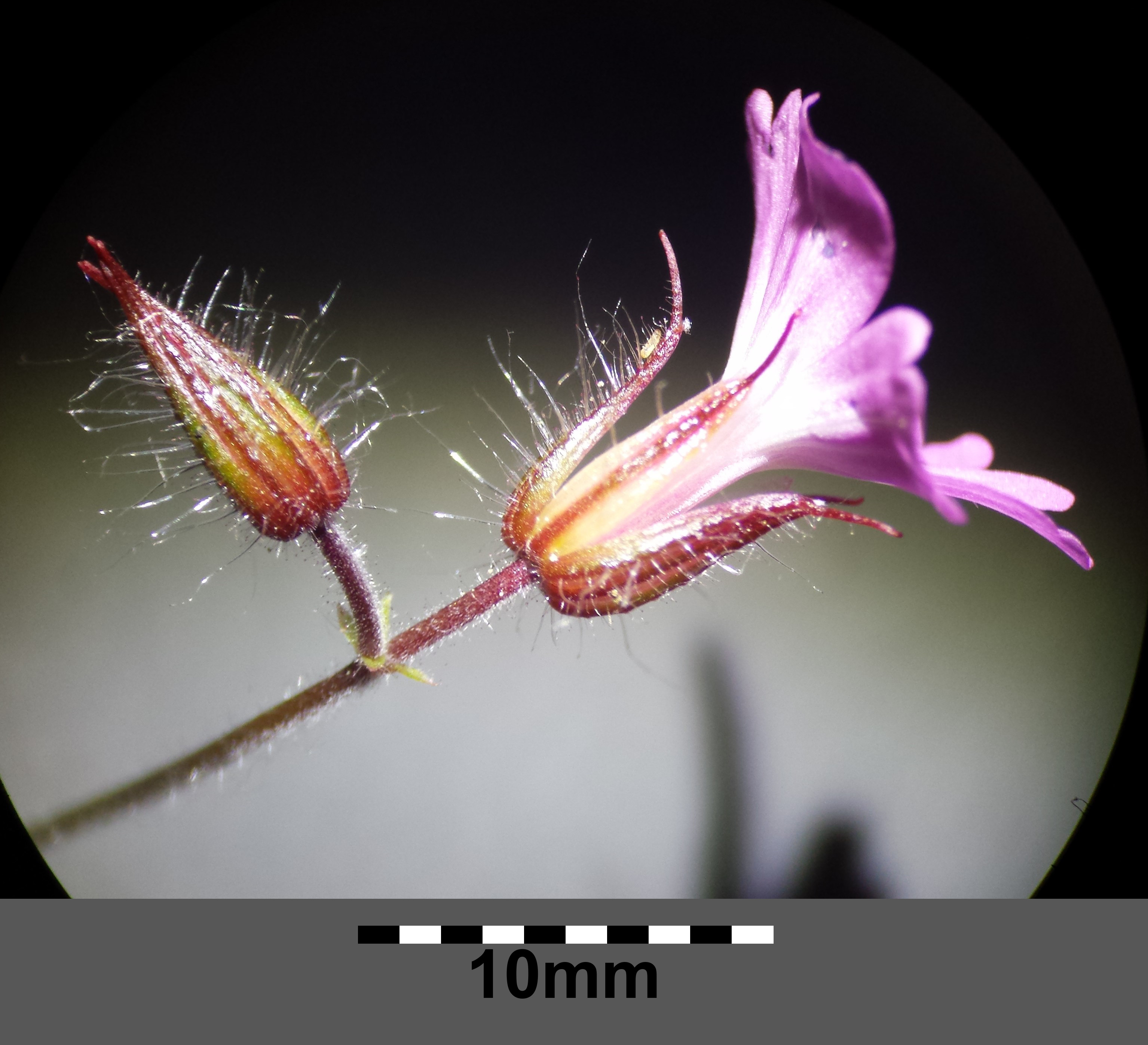 Inflorescence Taxonym: Geranium robertianum (s. str.) ss Fischer et al. EfÖLS 2008 ISBN 978-3-85474-187-9 Location: Floridsdorf rail station, Vienna-Floridsdorf - ca. 160 m a.s.l. Habitat: ballast